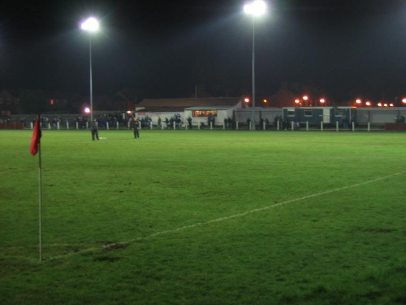 Selby town richard street side with turnstiles clubhouse and bar, disco with offices, corporate hospitality suite, teabar, and portable matchday office complete with media radio centre.